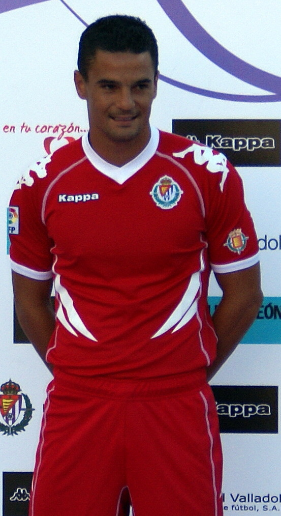 Carlos González Peña for Real Valladolid during the 2010-11 new shirts show in Valladolid.